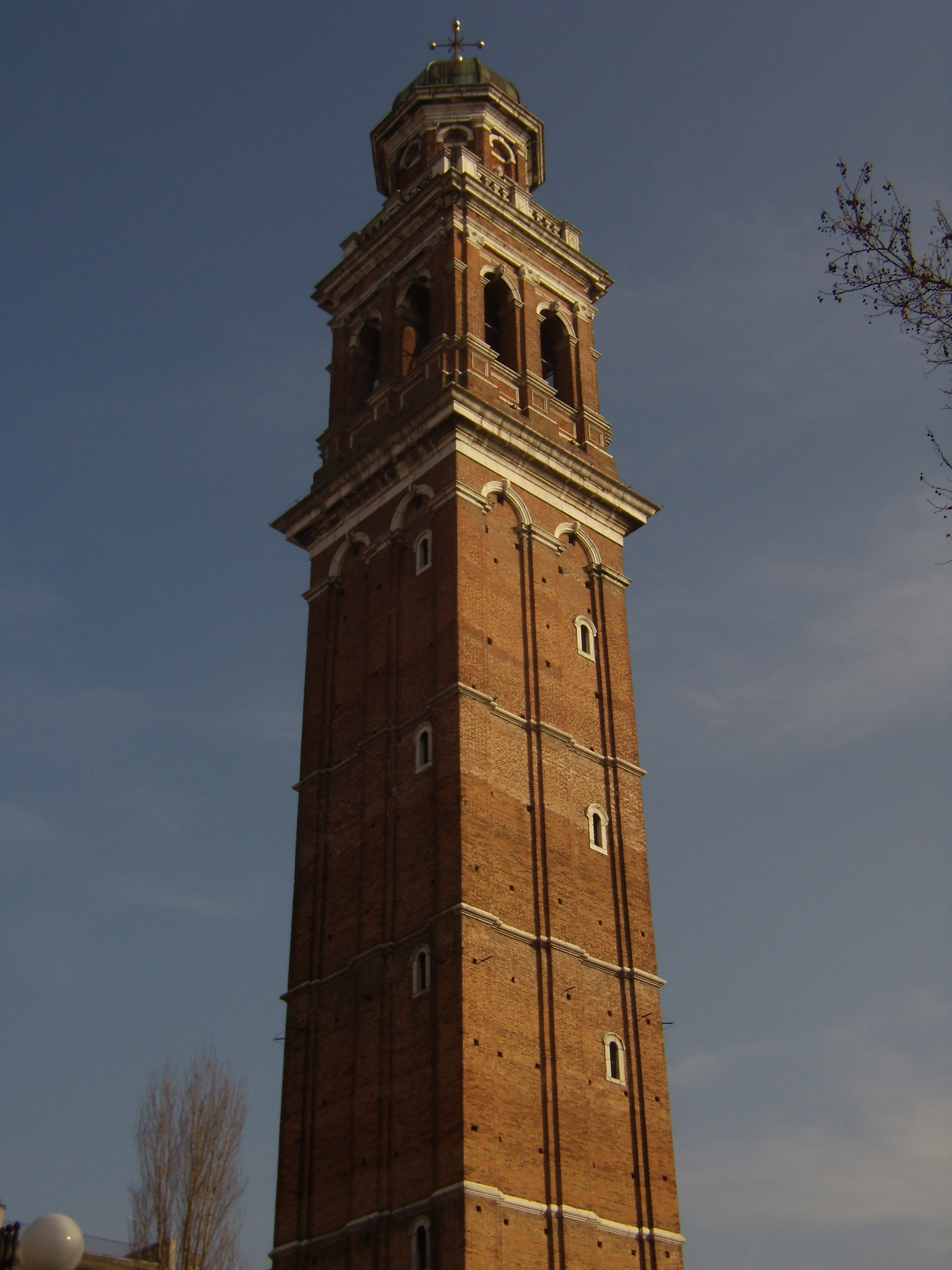 Campanile (Bell Tower) of Baldassare Longhena - Rovigo (Italy)